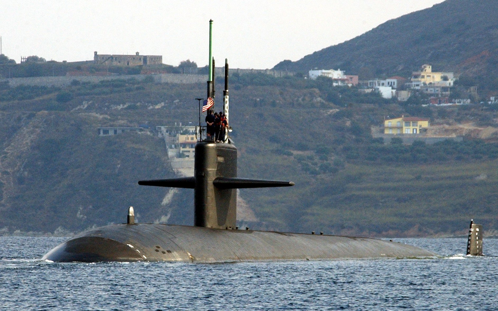 DNSD0610185 Port bow view showing US Navy (USN) Sailors manning a topside watch aboard the Los Angeles Class Attack Submarine USS Newport News (SSN-750), as the ship departs the harbor at Souda Bay, Crete, Greece following a port visit.